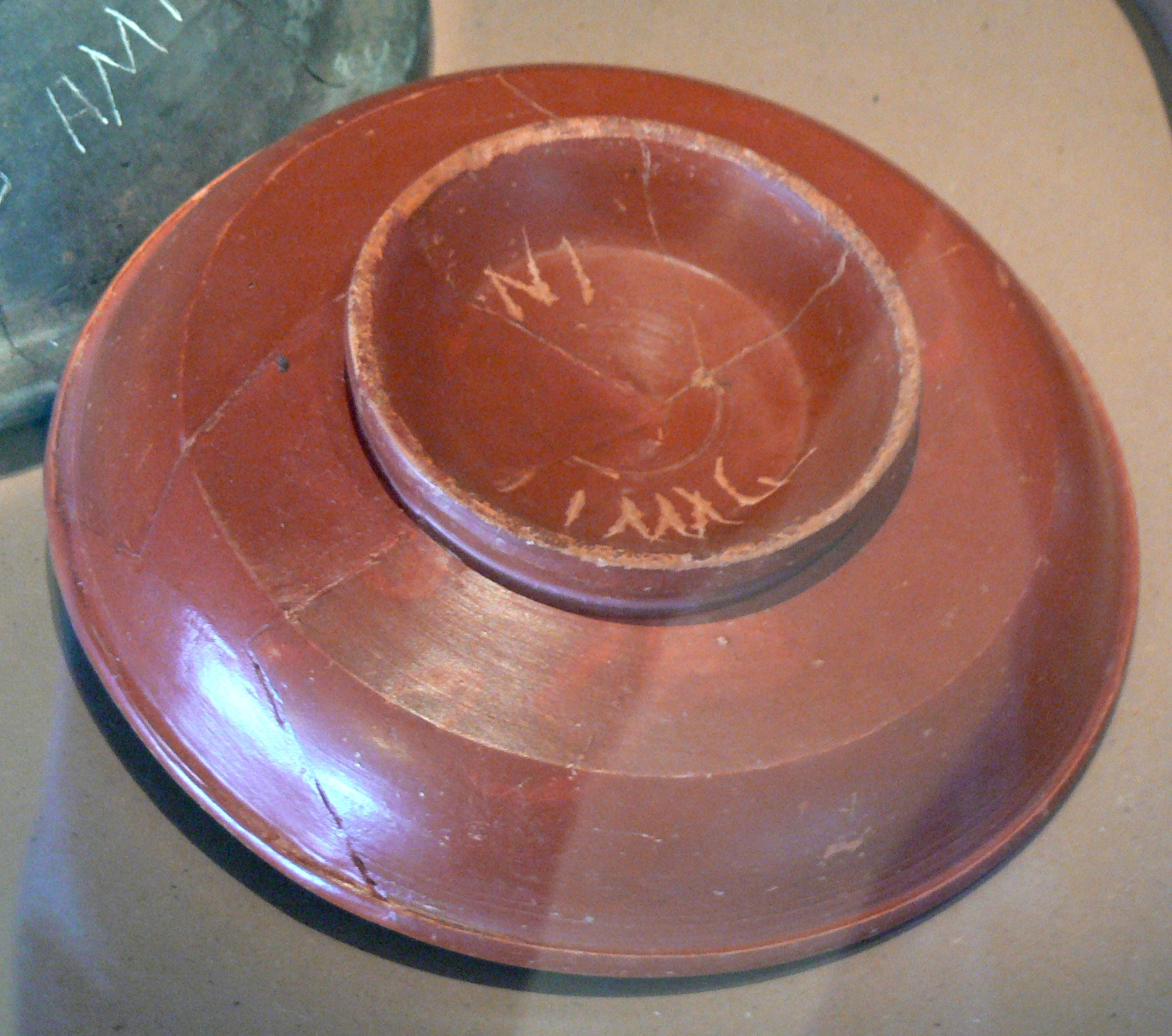 Celtic Museum Manching ( Bavaria ). Terra sigillata bowl from Kastell Oberstimm with inscription IN(genu)I IMAG(iniferi) ( Property of the imaginifer Ingenuus ) .